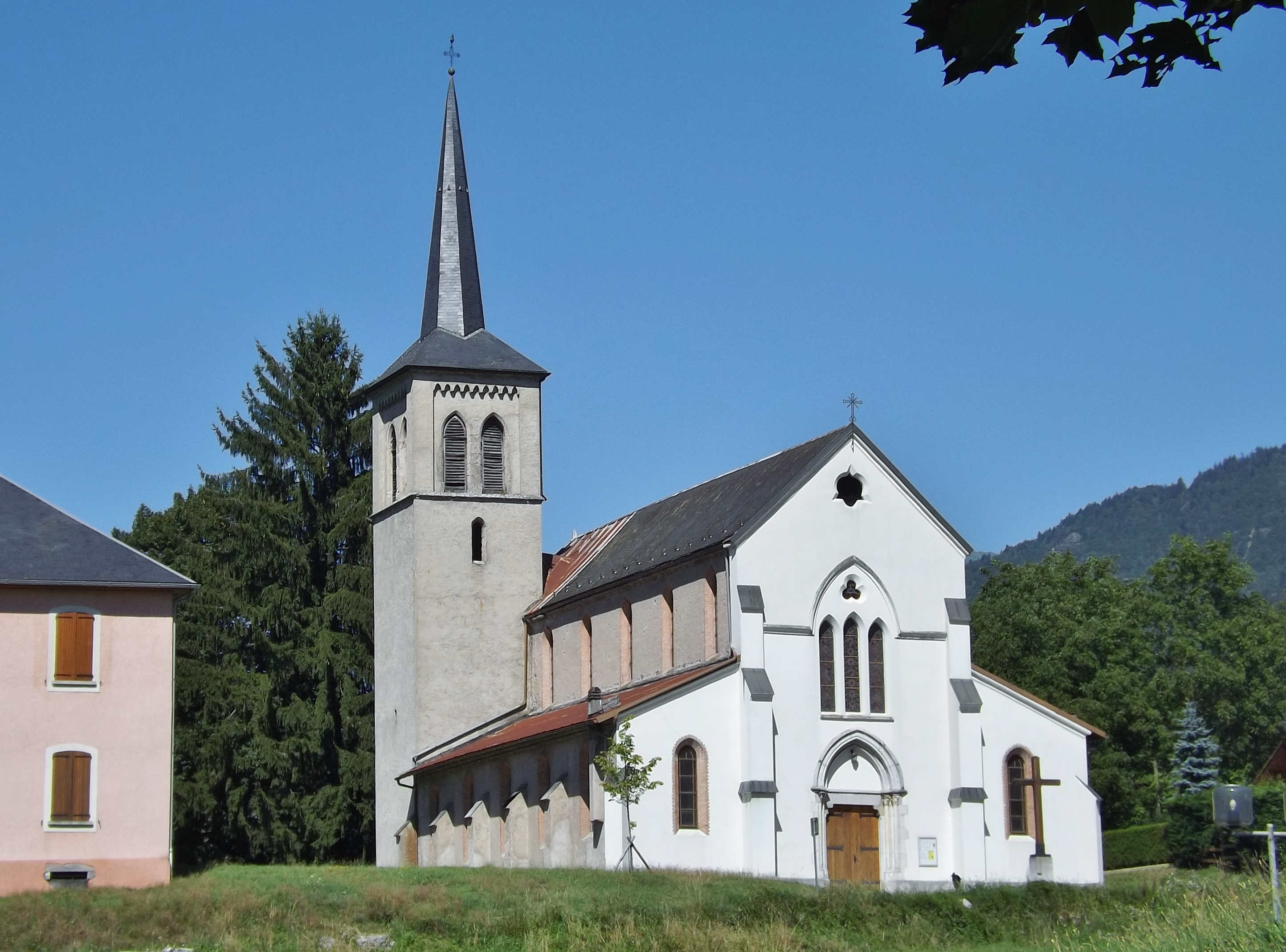 Sight of Notre-Dame-des-Millières church, commune situated between Chambéry and Albertville in Savoie, France.